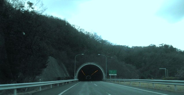 Mitsuda Tunnel (Shijimitown Toda Mikicity Hyogopref)